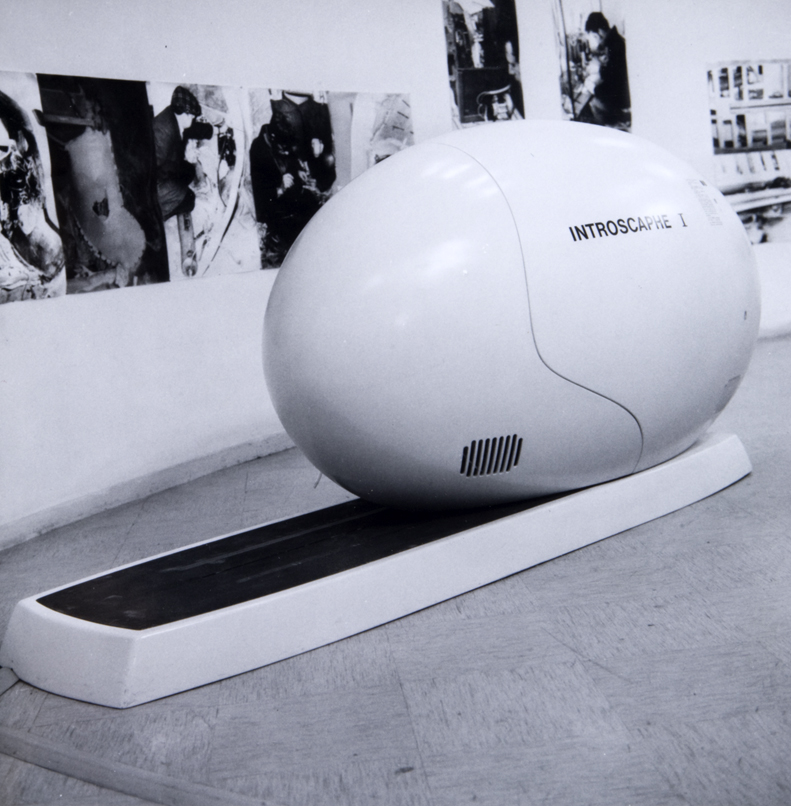 L'Introscaphe d'Edmund Alleyn au Musée d'art moderne de la ville de Paris en 1970. Collection Musée national des beaux-arts du Québec